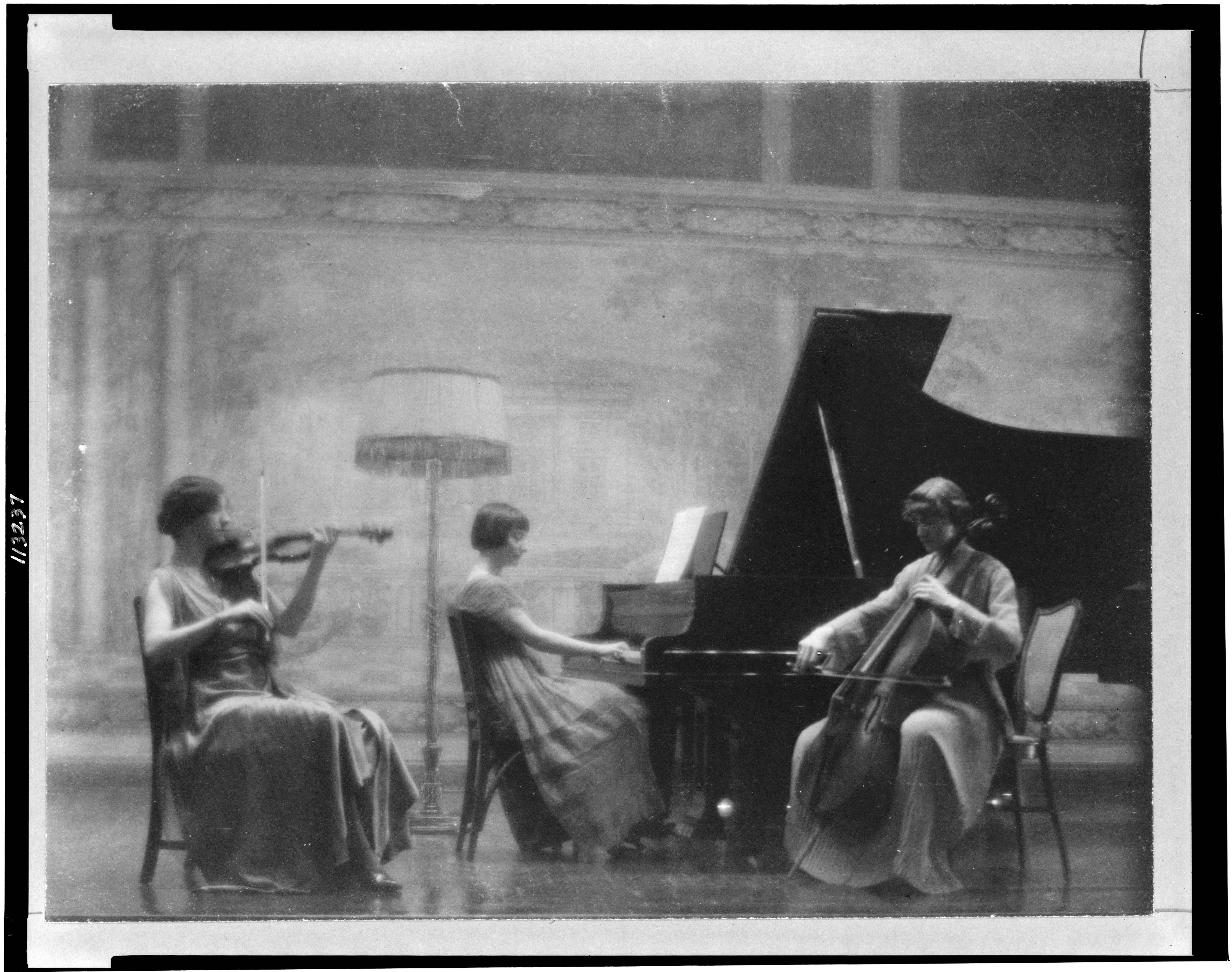 Title: The prelude Abstract/medium: 1 photographic print : platinum ; 15.1 x 20 cm. (6 x 7 in.)